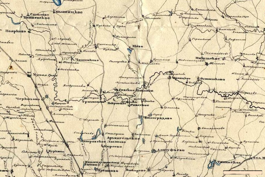 Plan of Arkhangelsk-Tyurikova in 1849.